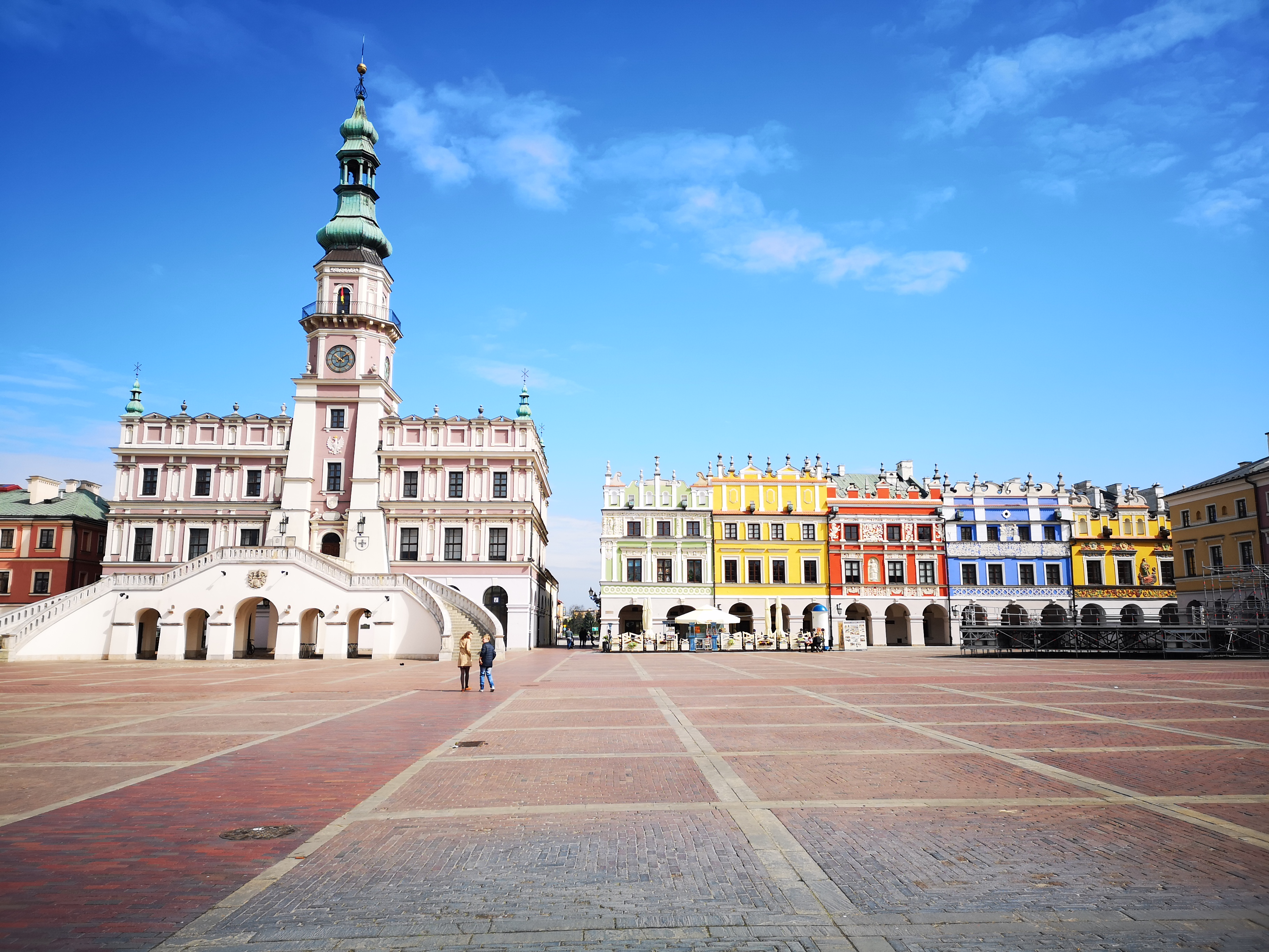 Great Market Square in Zamość, Poland on April 2019